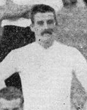 The former South African rugby union player Chubb Vigne.